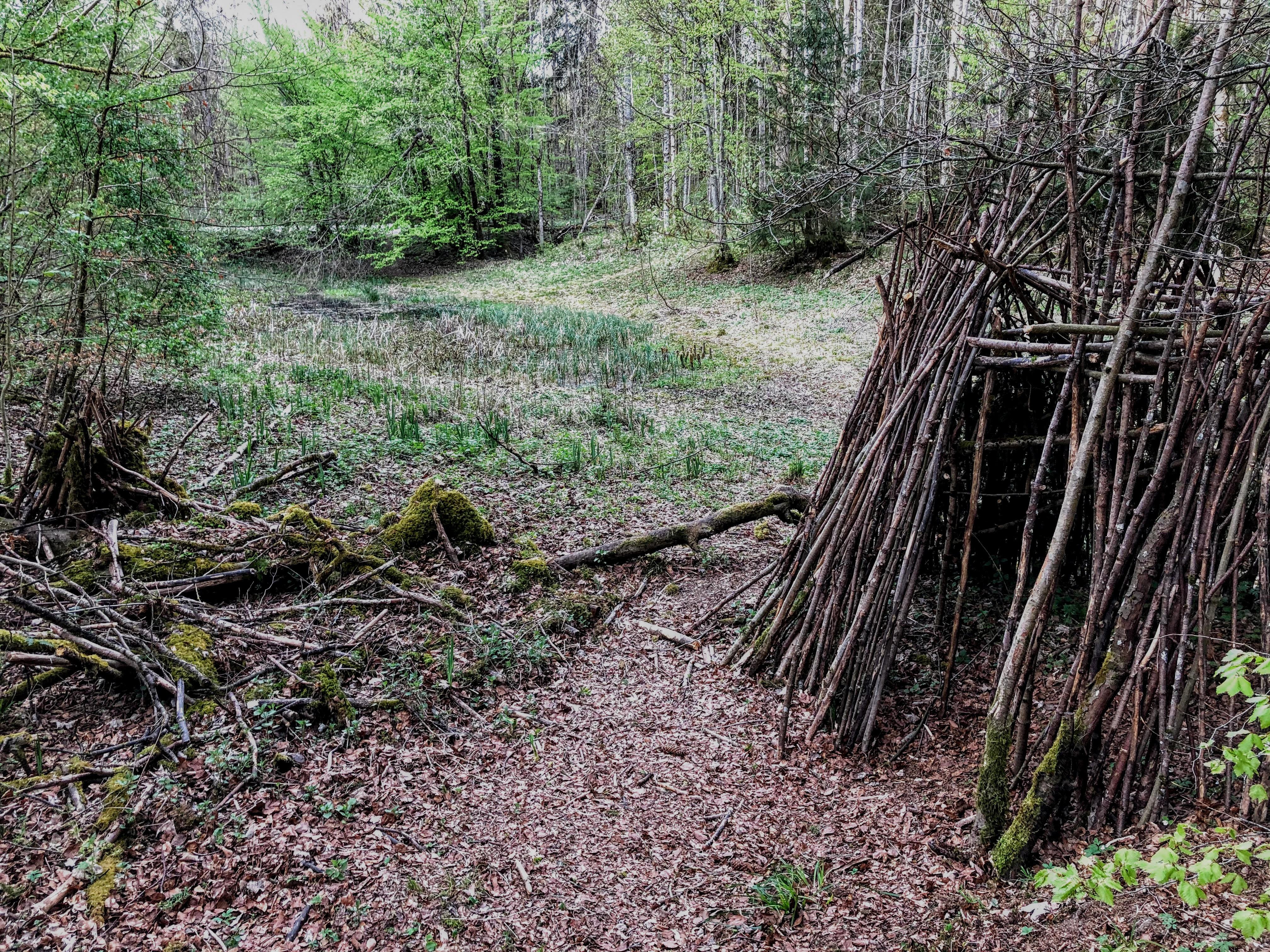 Deisenhofener Forst, Bavaria, Hirschbrunnen